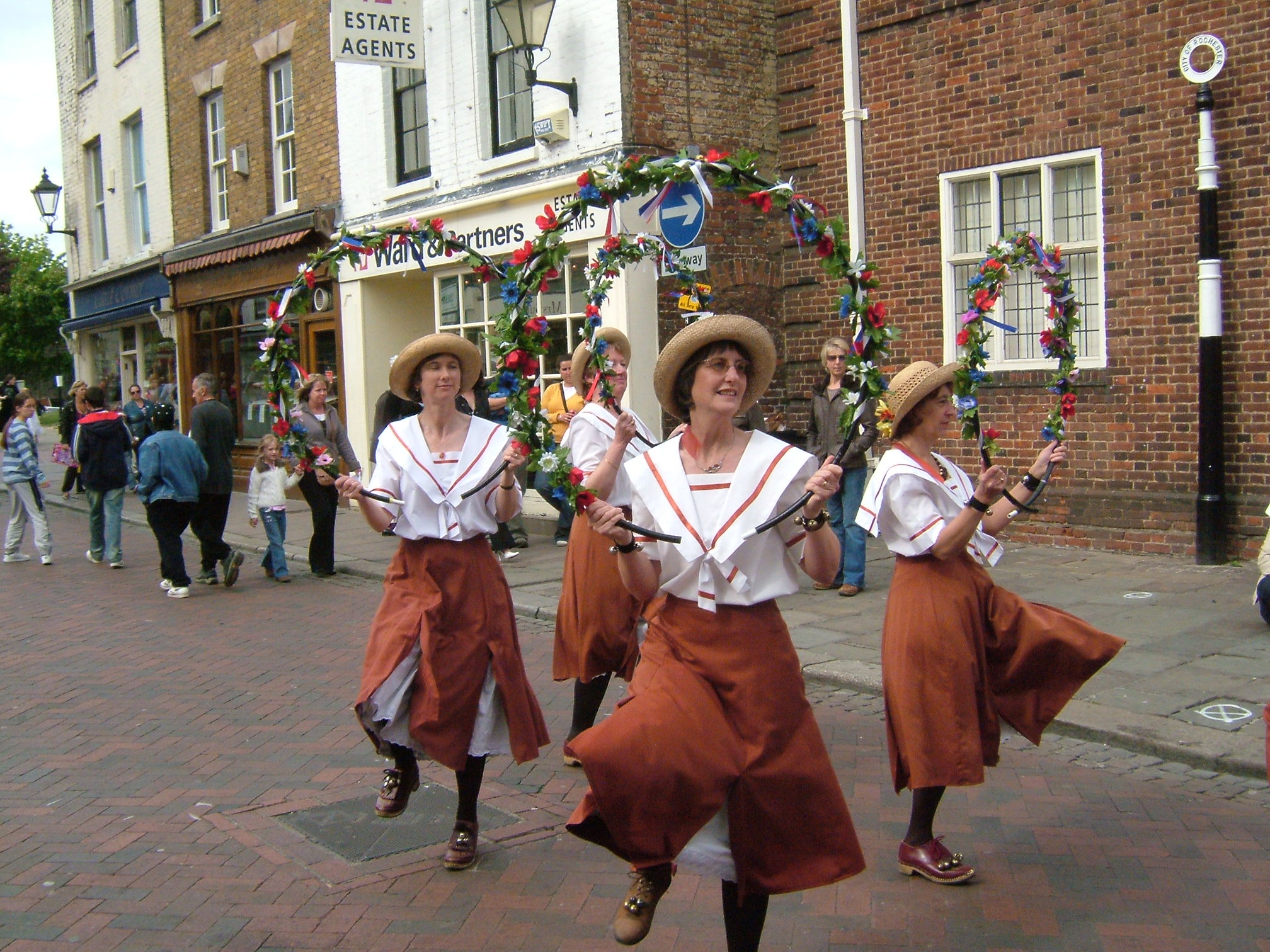 The 2007 Sweeps festival in Rochester in Kent. This morris dance, side, Copperfield Clog are dancing a Garland Dance in the High Street near Rochester Cathedral. This is a Clog side.